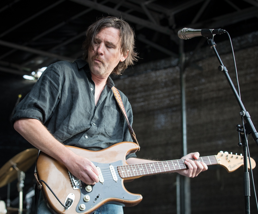 Cass McCombs at the minor stage in the Vigeland Park. The concert was part of Piknik i Parken and took place on 22. June 2017 in Oslo. Lineup: Cass McCombs (guitar / vocal), Unidentified (bass guitar), Unidentified (drums) and Unidentified (keyboard).